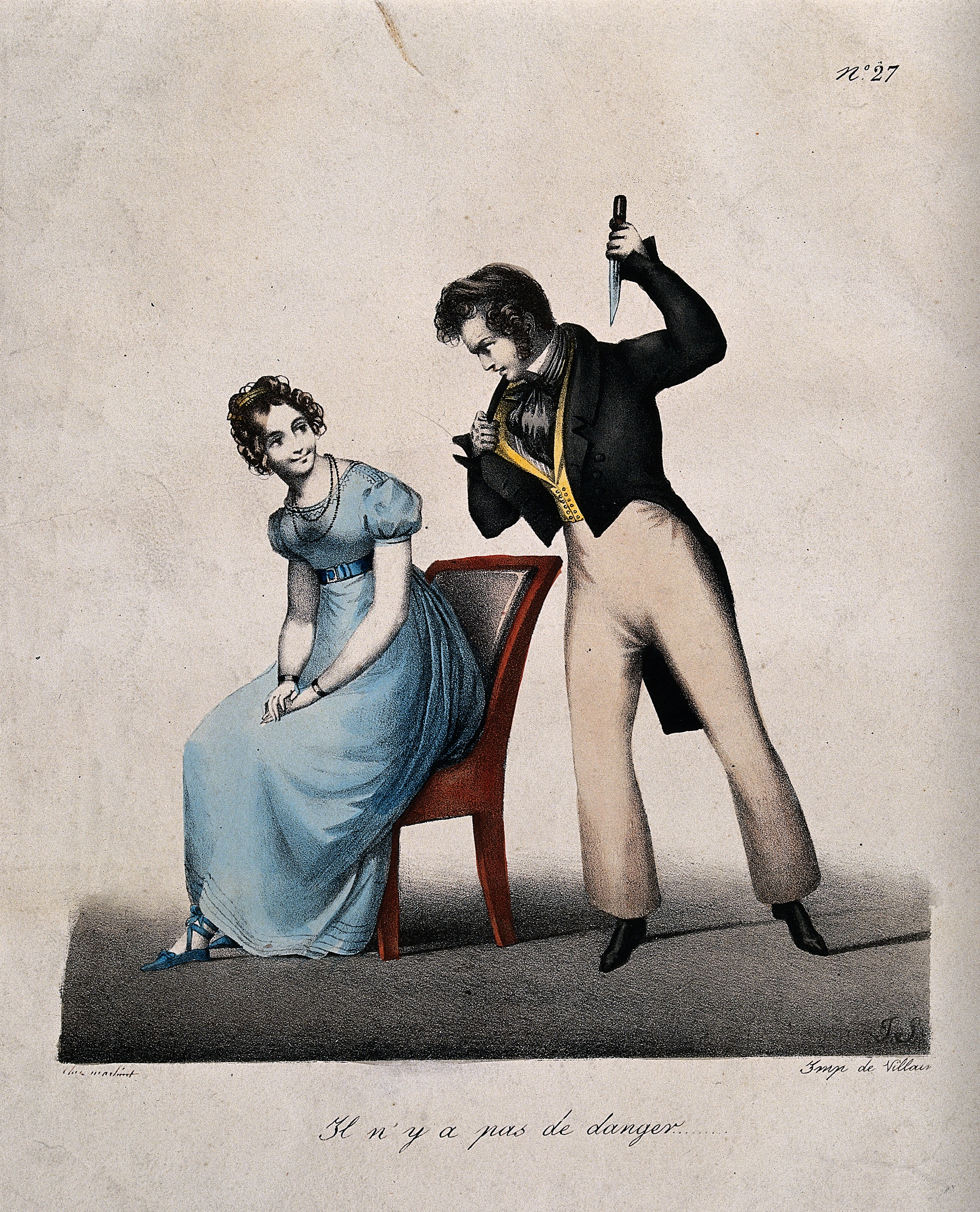 A young man holding a dagger threatens to kill himself while a young lady sitting on a chair next to him smiles at him, not taking his threat seriously. Coloured lithograph. Iconographic Collections